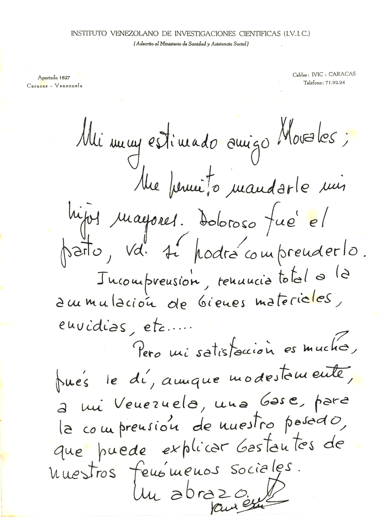 Letter of José María Cruxent